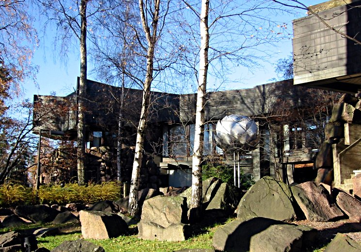 Dipoli - conference centre on the campus of Helsinki University of Technology on the Otaniemi peninsula in Espoo, Finland